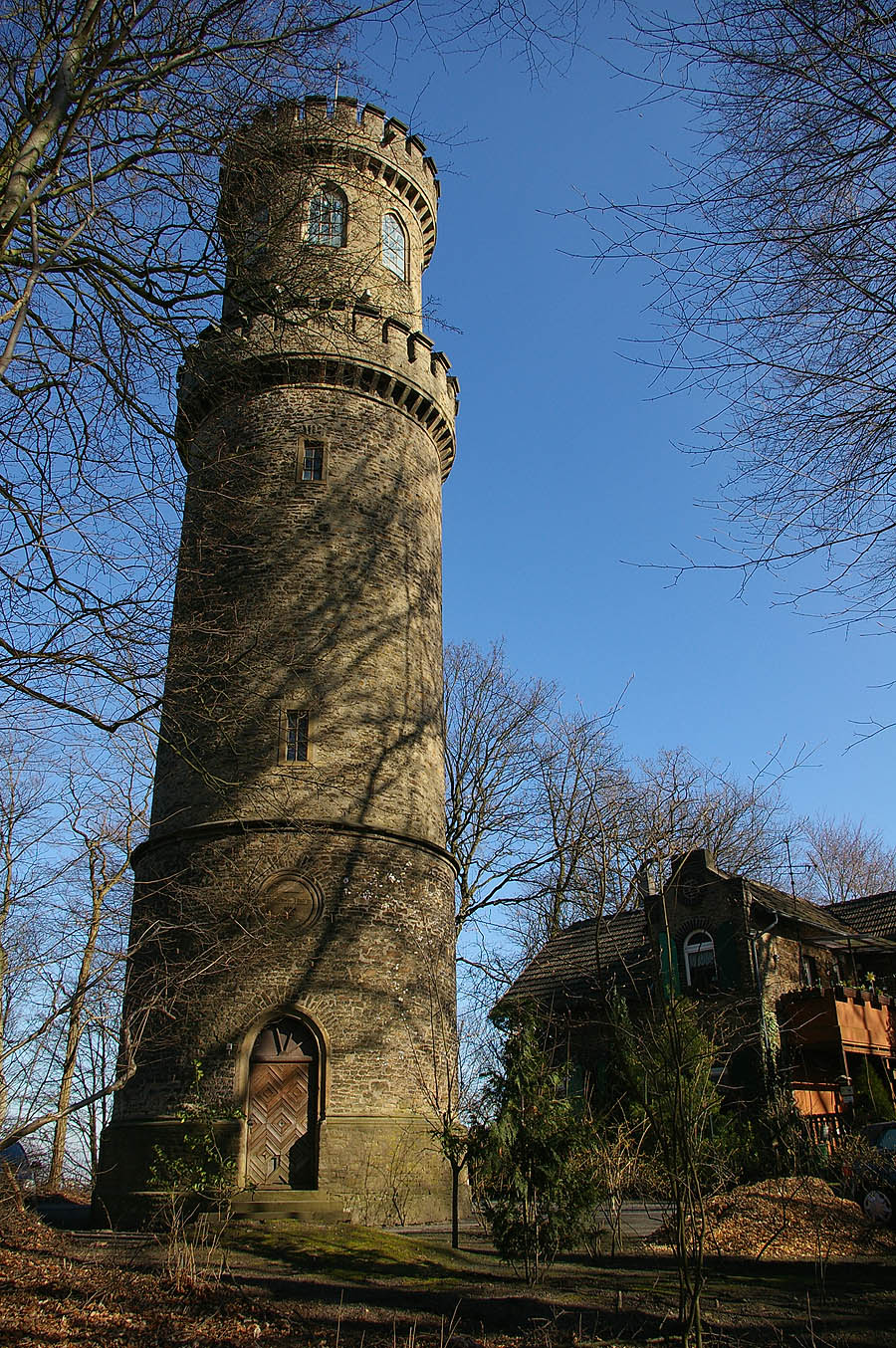 Witten, Helenenturm This is a photograph of an architectural monument.